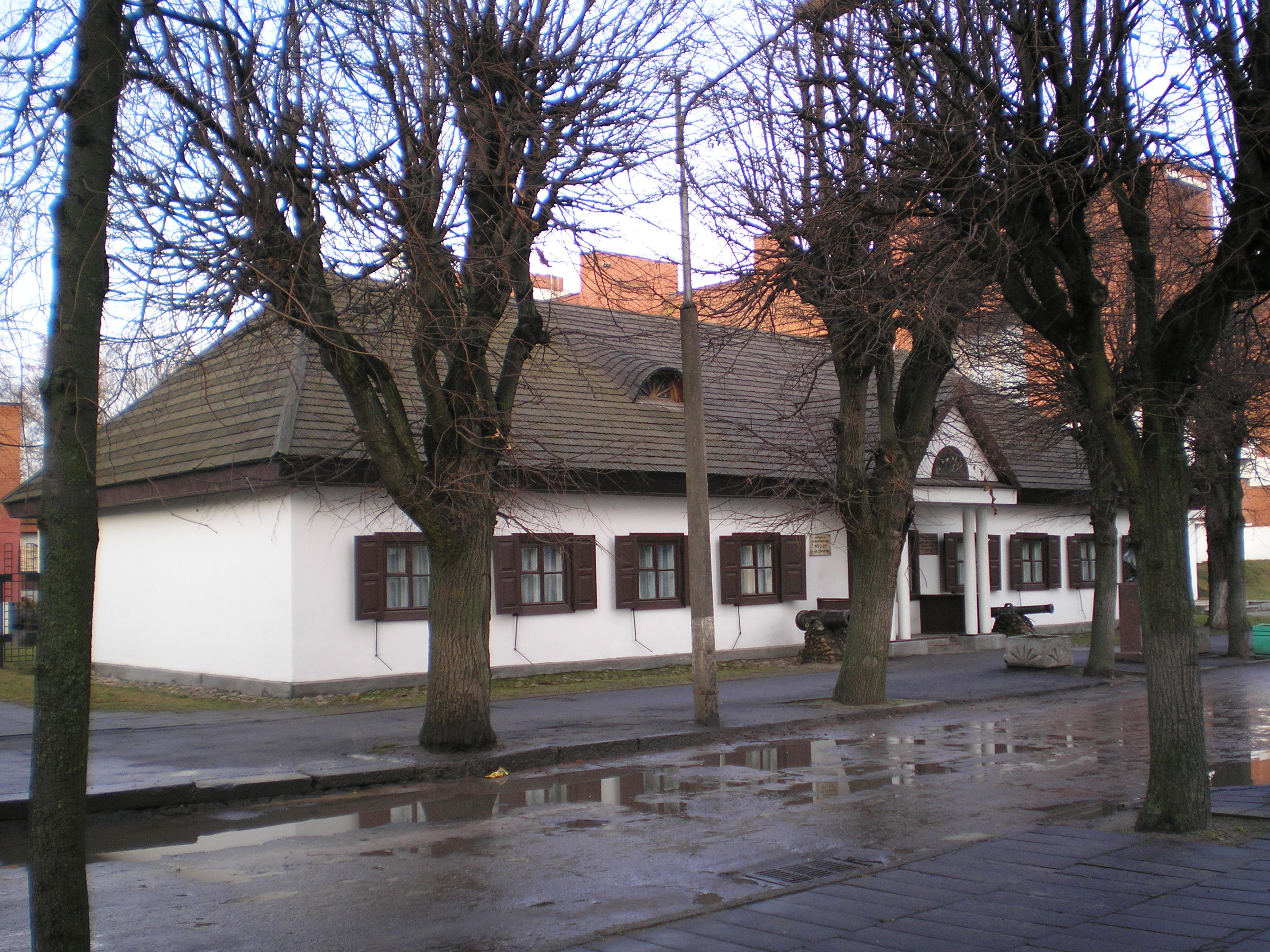 Suvorov Museum in Kobrin